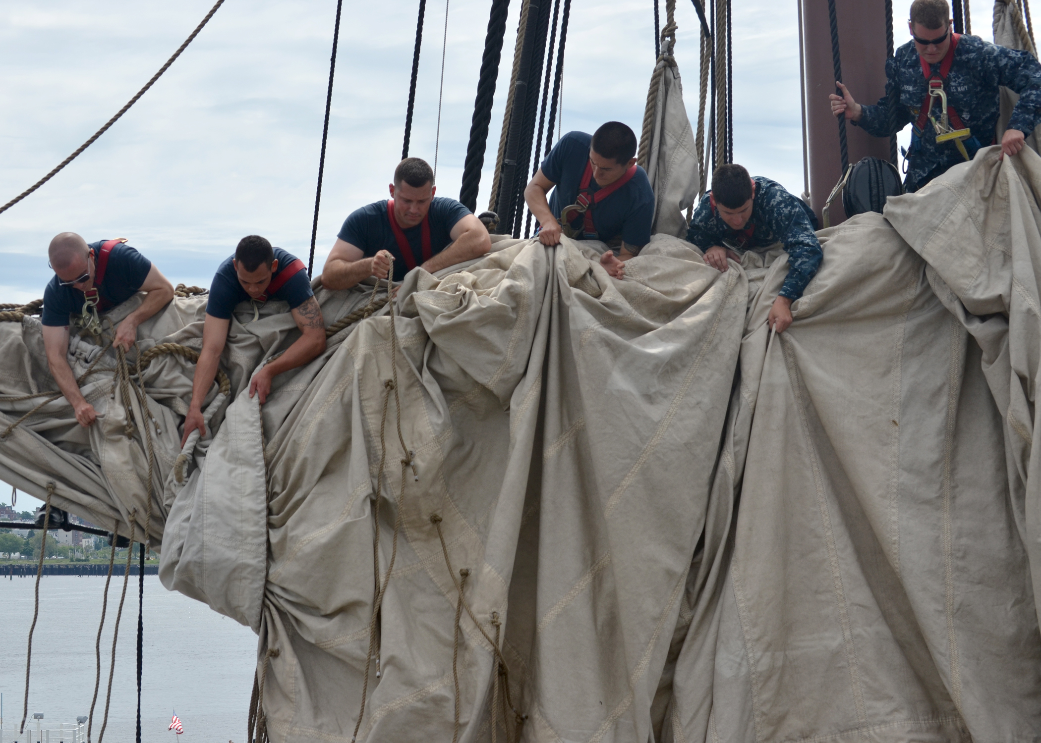 CHARLESTOWN:: Mass. (June 11:: 2012) Sailors assigned to USS Constitution handle the topsail during sail training on the mizzen mast of the ship. Sailors assigned to Constitution routinely work to improve seamanship skills in preparation for possibly sailing the ship for the bicentennial of the War of 1812. (U.S. Navy photo by Seaman Michael Achterling/Released) 120611-N-BJ178-414 Join the conversation navylive.dodlive.mil